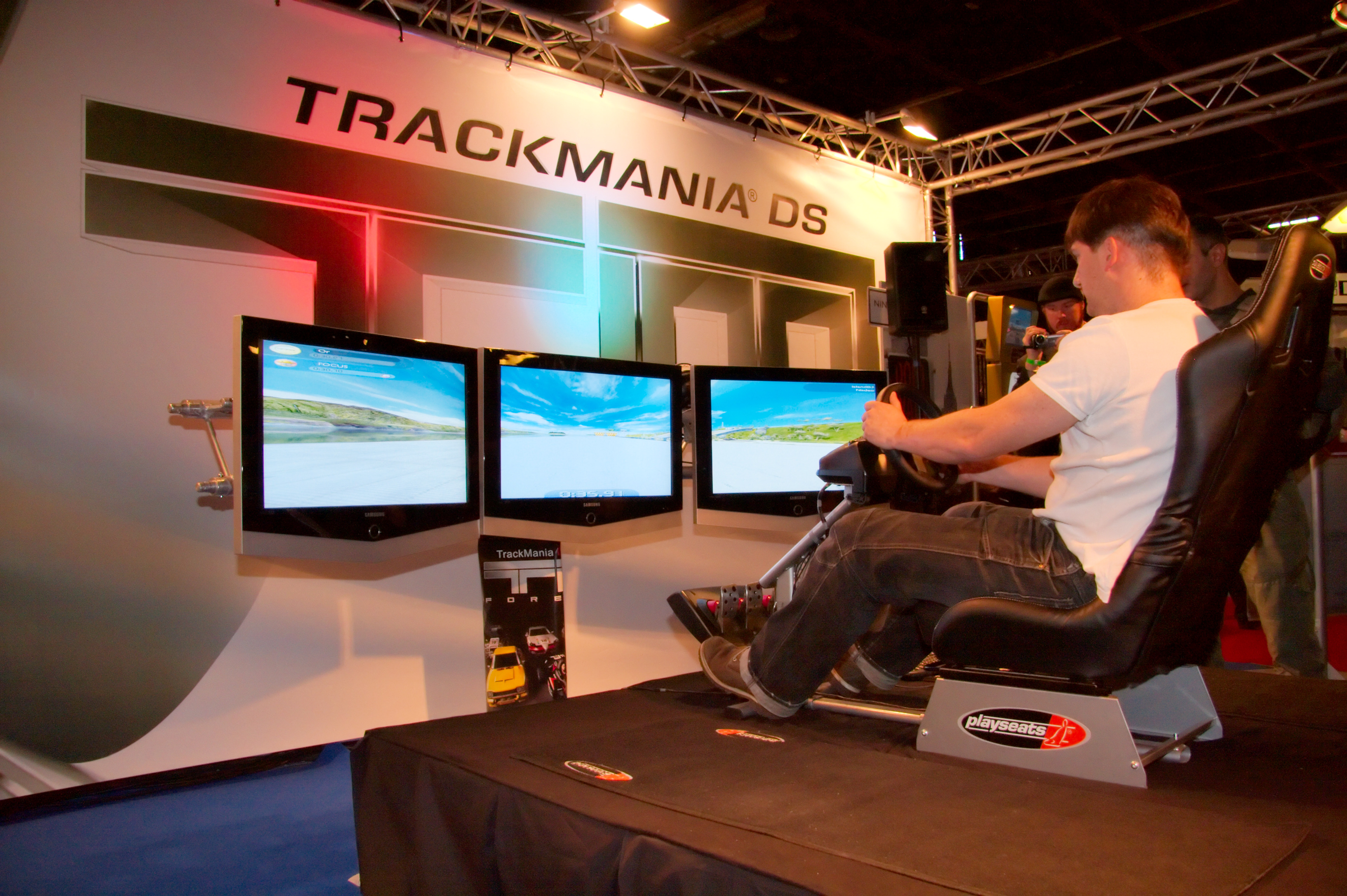 Festival du jeu vidéo 2008 (video game festival) (Paris, France).